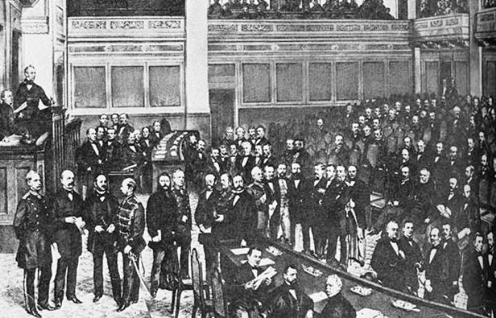 Gathering of the Konstituierender Reichstag, February-April 1867.